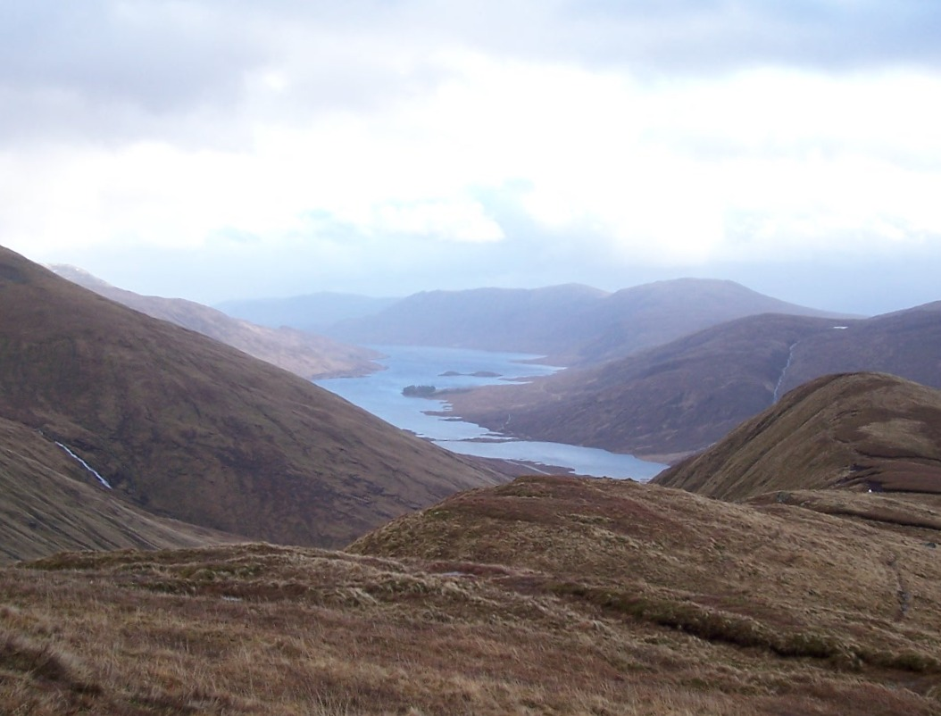 Loch Cluanie and Beinn Loinne from Meall a' Charra. Taken by myself 12/06